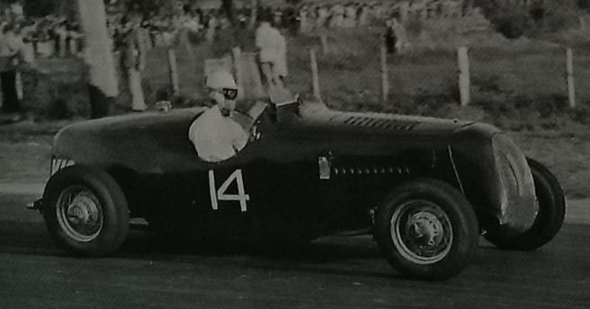 The Ford V8 Special of Doug Whiteford contesting the 1950 New South Wales 100 at the Mount Panorama Circuit, Bathurst, New South Wales, Australia on 10 April 1950. Whiteford won the race.